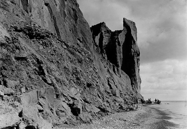 Scarboro Bluffs